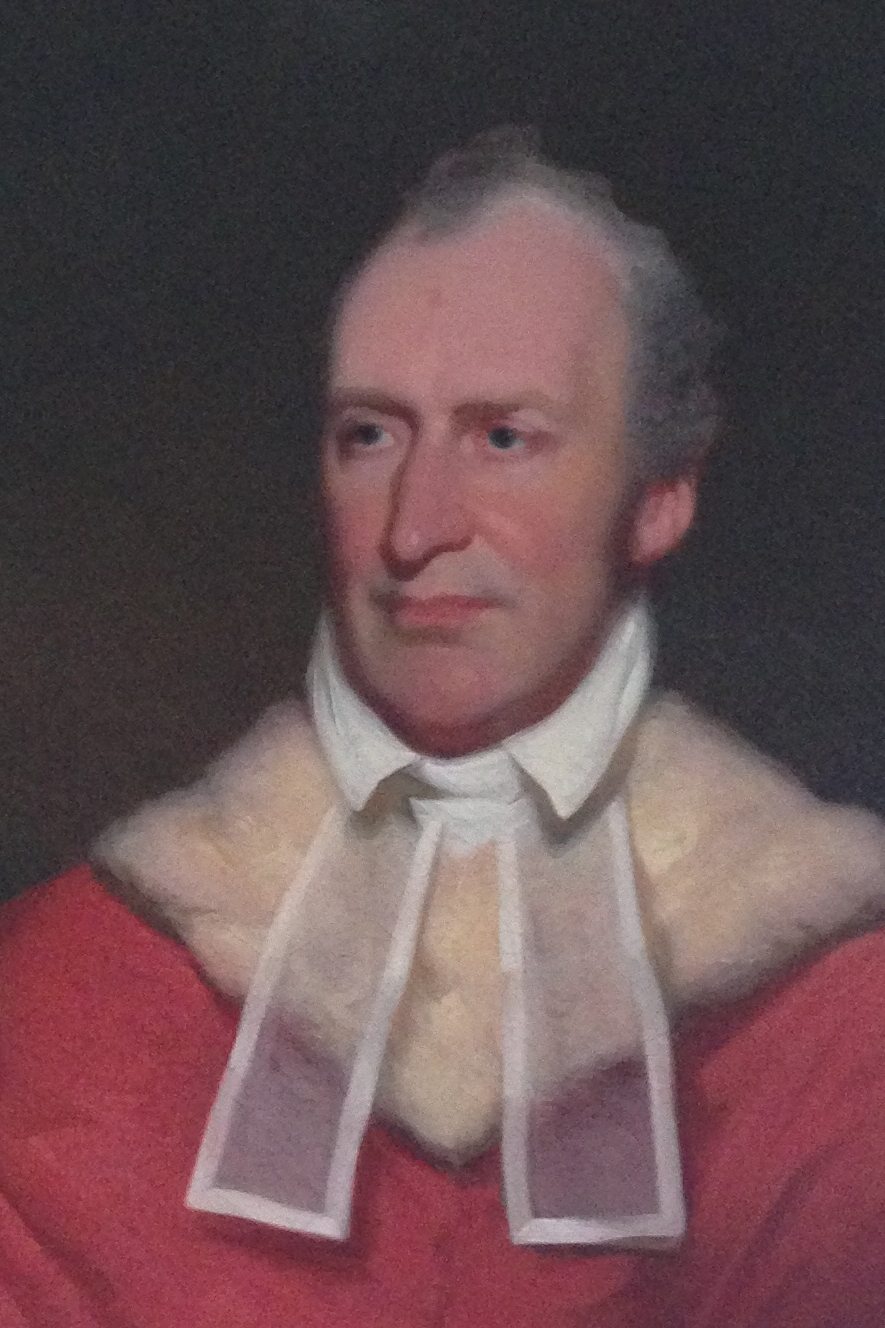 Sir Edward Hyde East at home